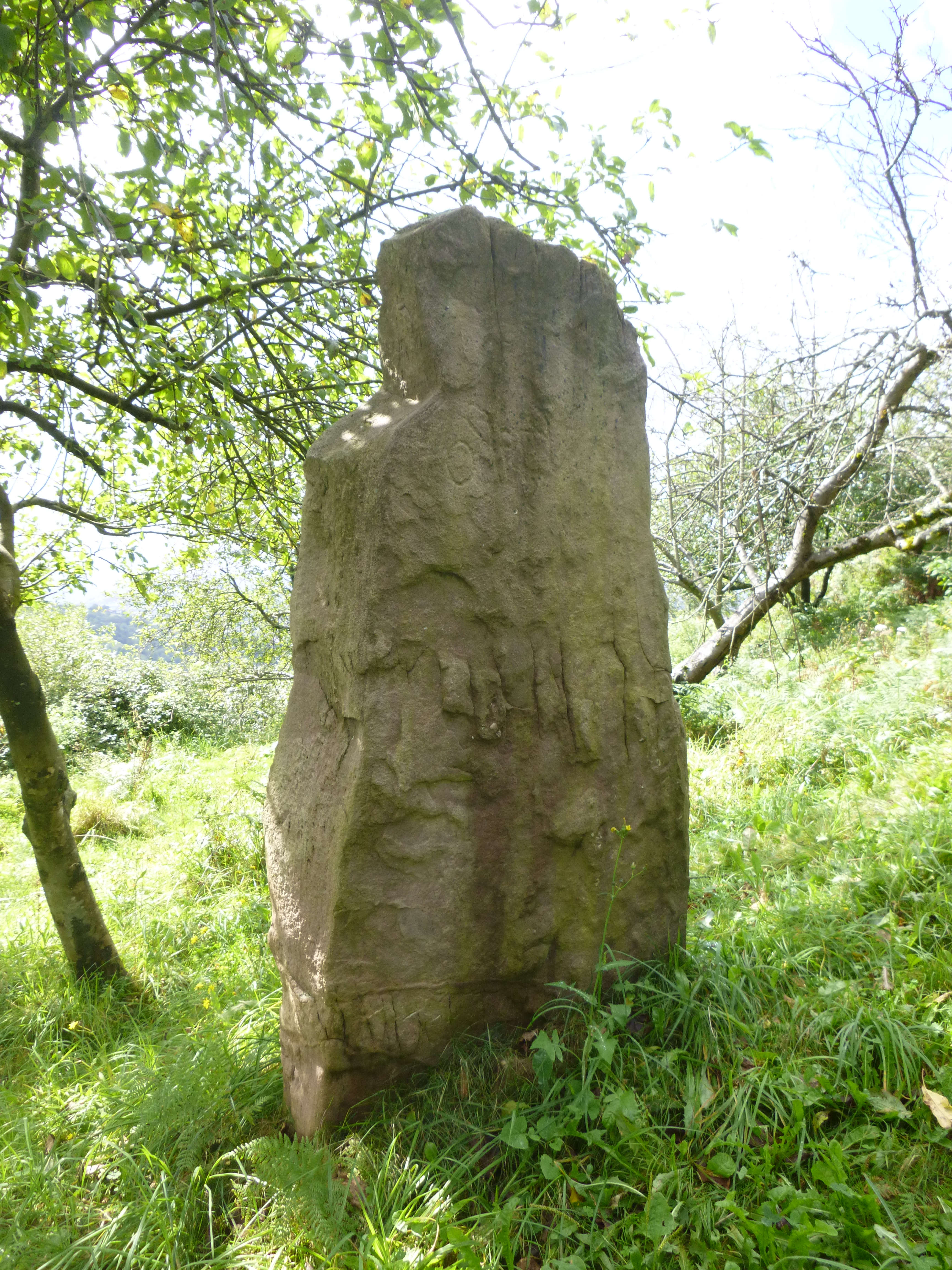 Menhir in Txoritokieta